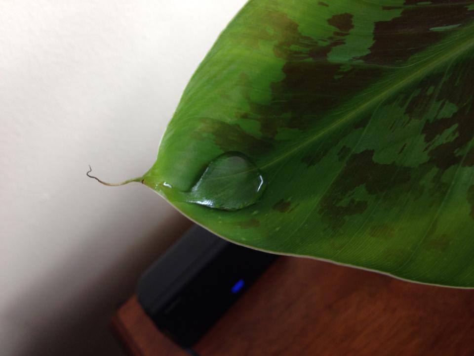 The water drop at the tip of a banana leaf, due to guttation